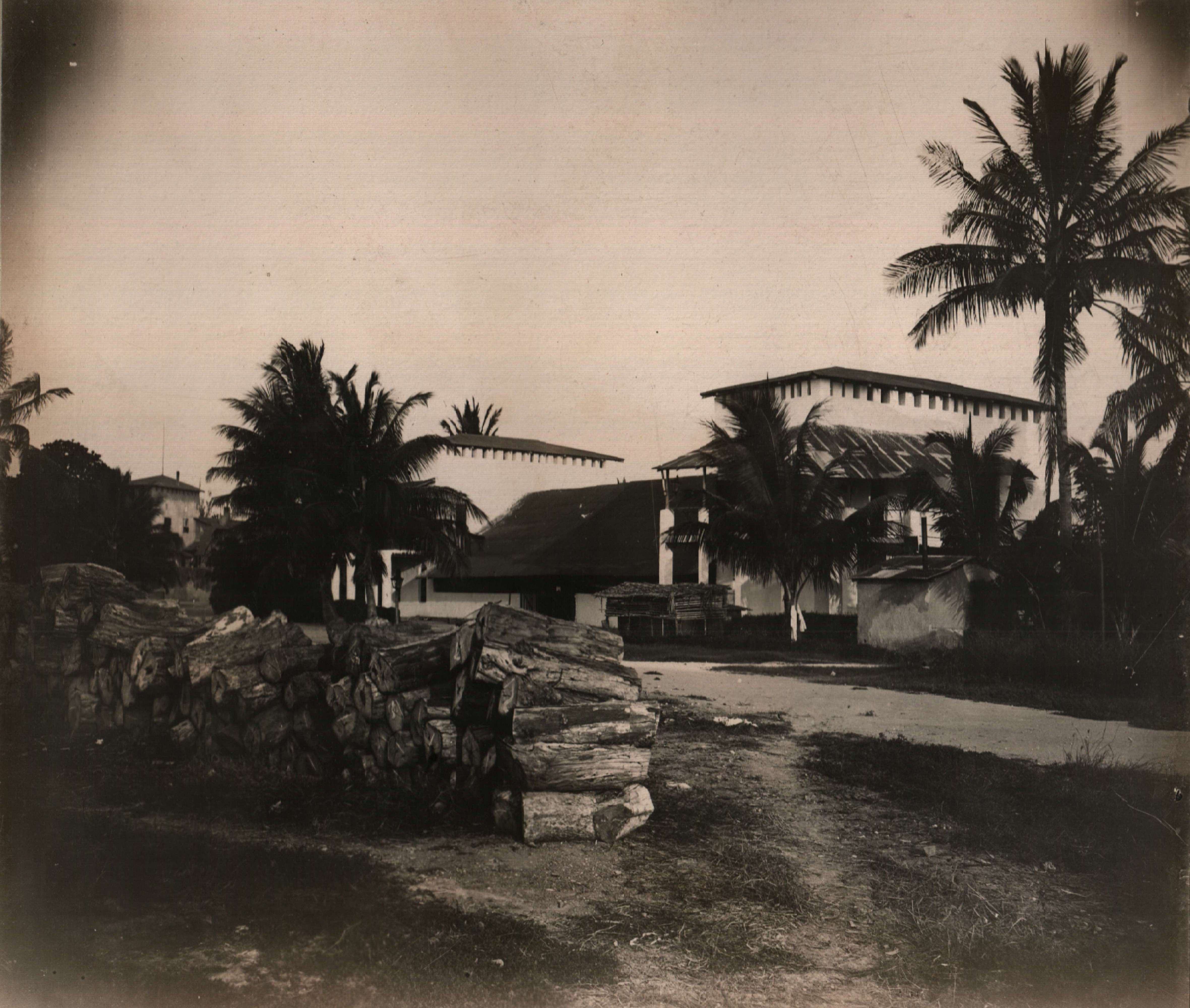 Photos of Africa (1909-1913), Kilwa Kisiwani, Tanzania